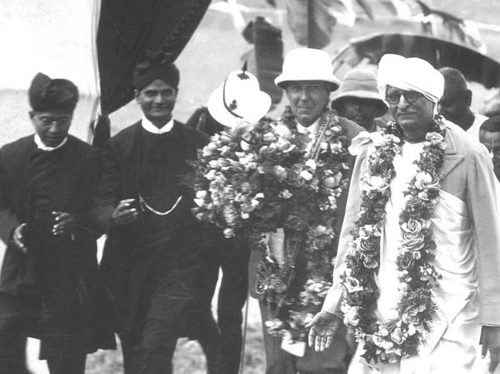 Bhaktisiddhanta and the Governor of Bengal John Anderson